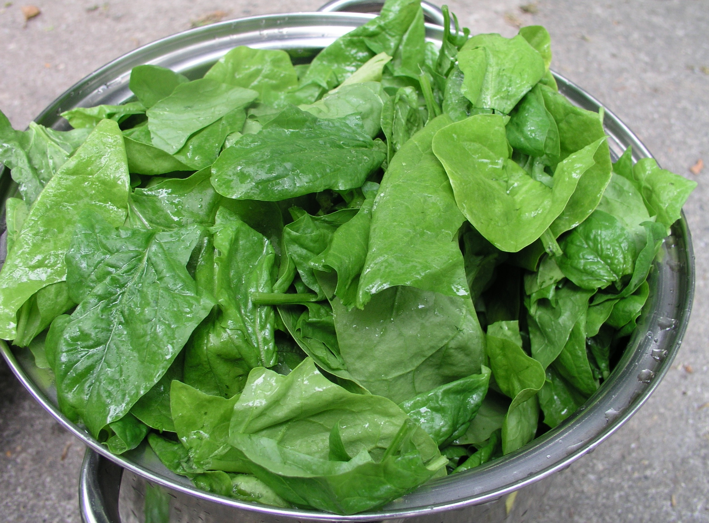 1 kg of Spinach leaves separated from the stems. See Image:spinach_leaves_stems.jpg